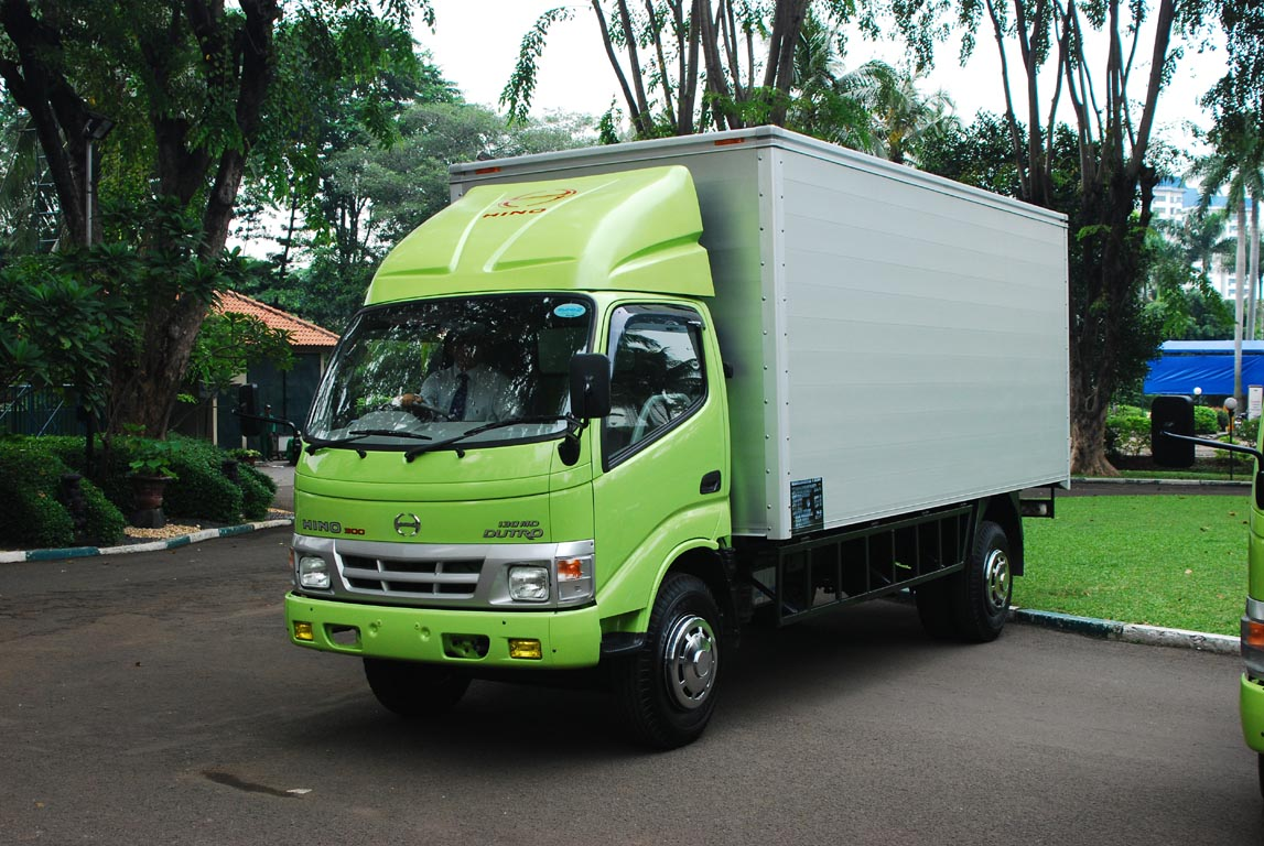 Hino Dutro 130MD Long Wheelbase (WU342) with Aluminium Box